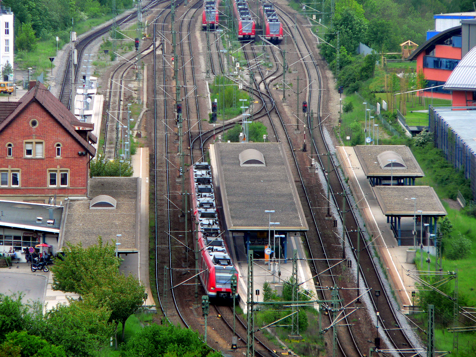 Railway station in Herrenberg, Germany. Seen from the tower of the church Stiftskirche